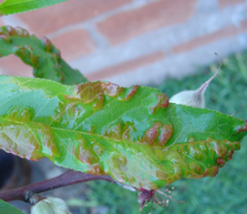 cloca